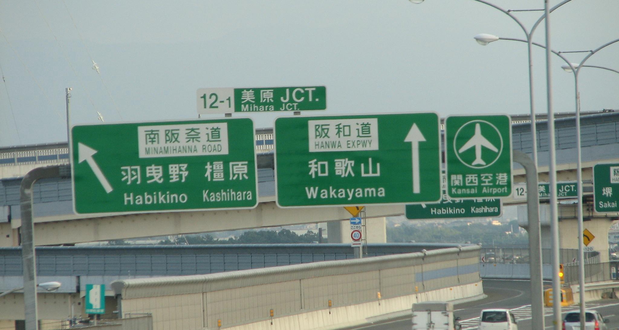 Mihara JCT (for Wakayama)